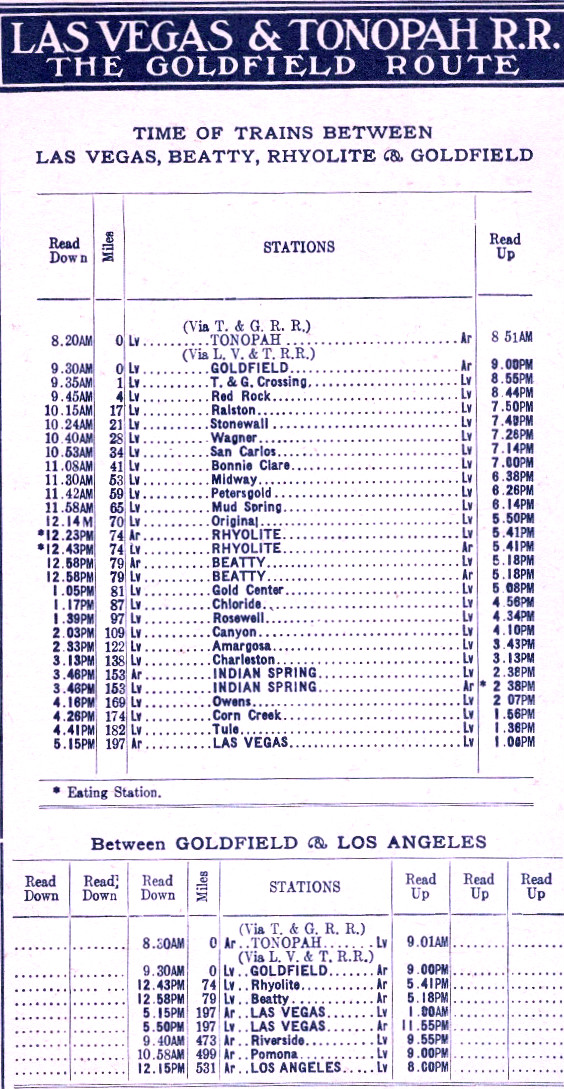 Schedule from a 1910 Las Vegas and Tonopah Railroad timetable.